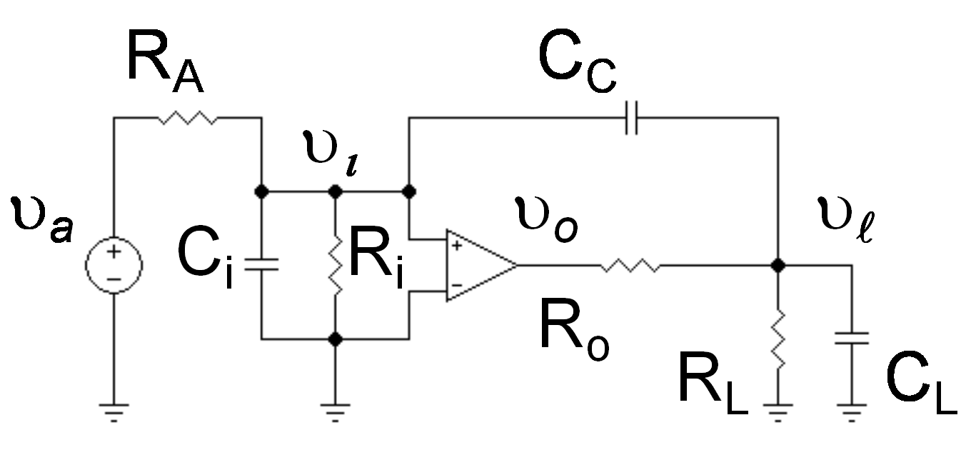 OpAmp pole splitting example